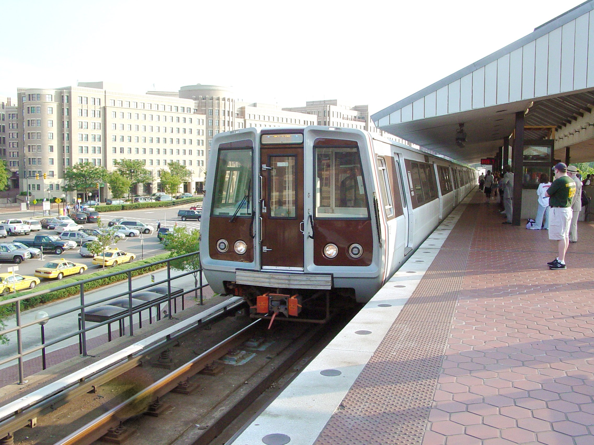 A Breda rehab arrives at King Street station in Alexandria, Virginia.